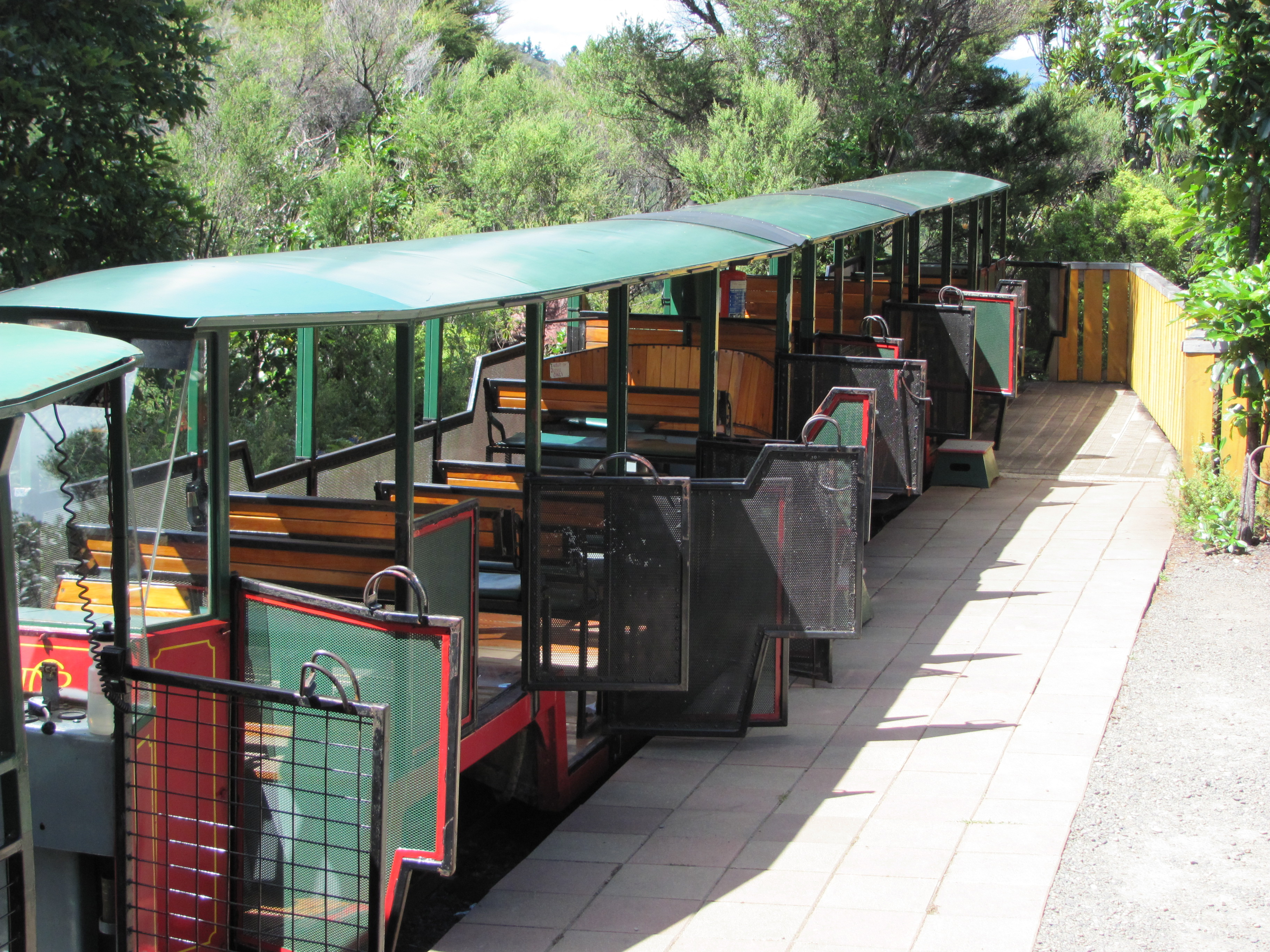 DMU "Linx", DCR